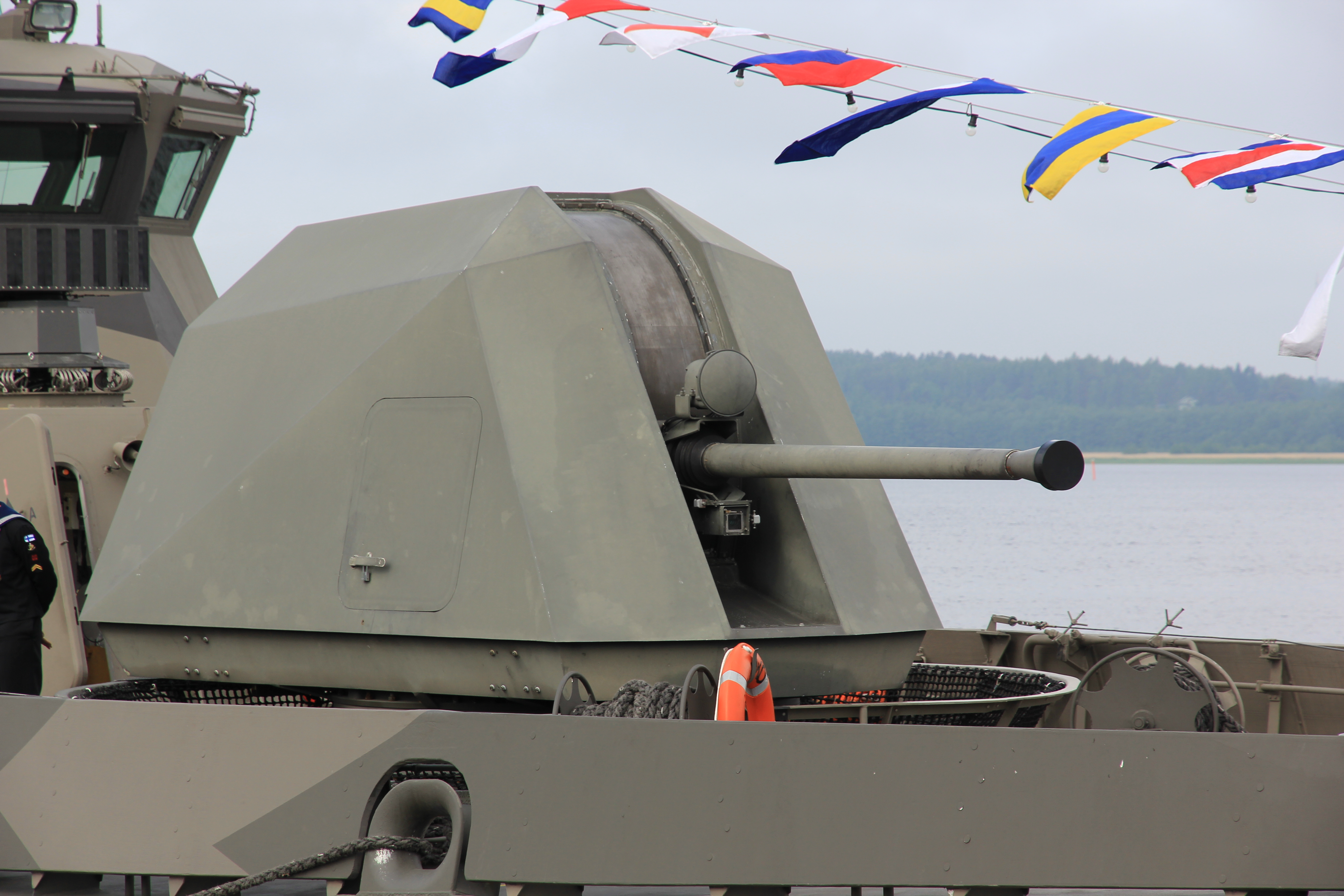 Missile boat Hanko bow 57 mm Bofors Mk3 photographed during Finnish Defence Forces 2013 Flag day in Ekenäs harbour.